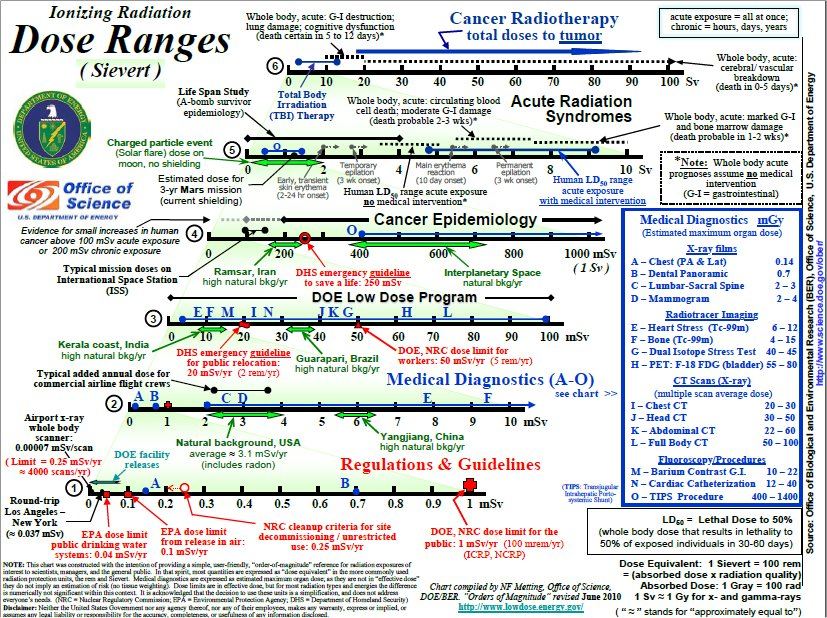 Chart showing dose ranges of ionizing radiation in units of sievert.